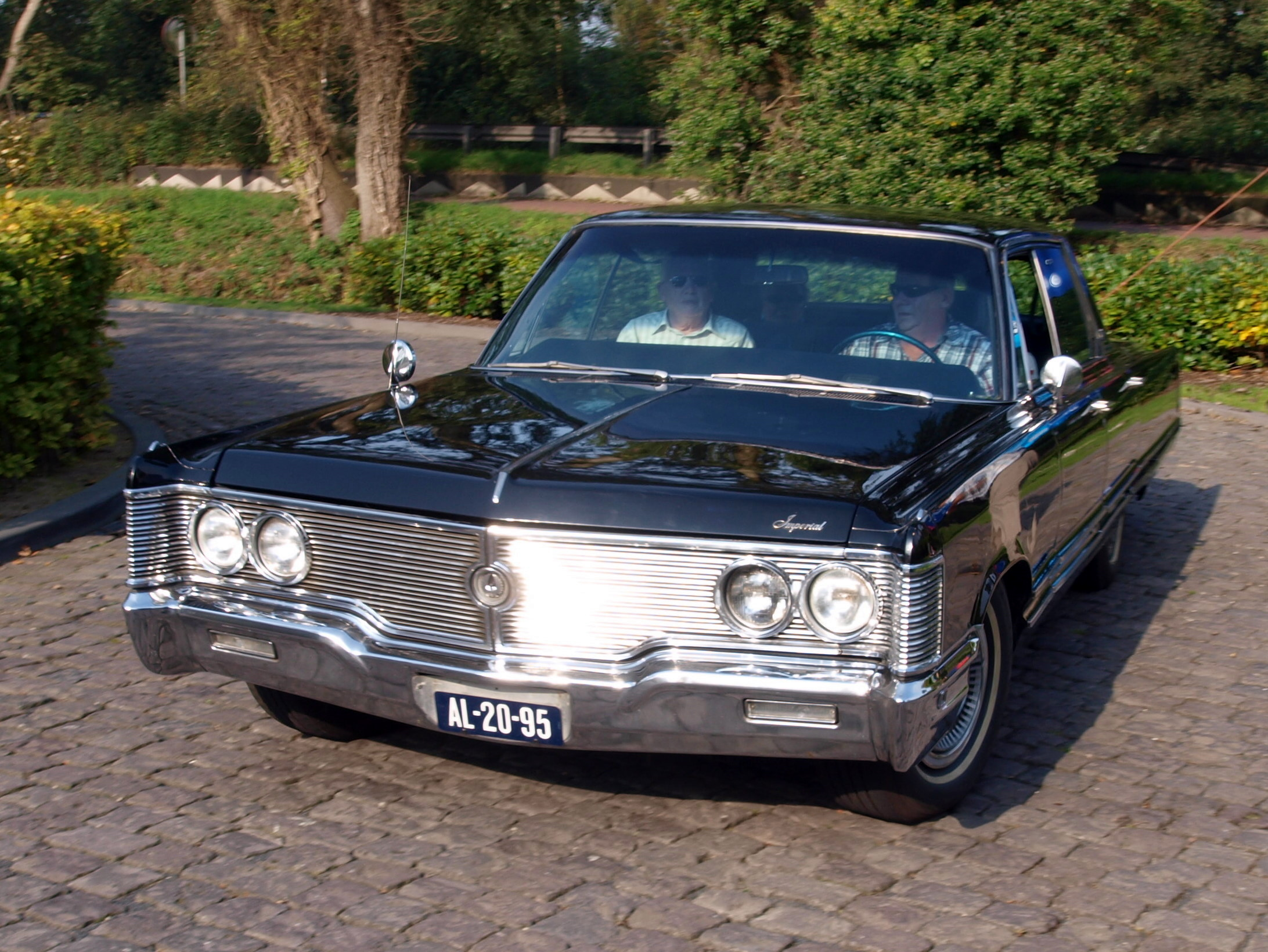 1968 Imperial LeBaron. Photographed at the premmesis of the Louwman museum, The Hague, The Netherlands. OLYMPUS DIGITAL CAMERA